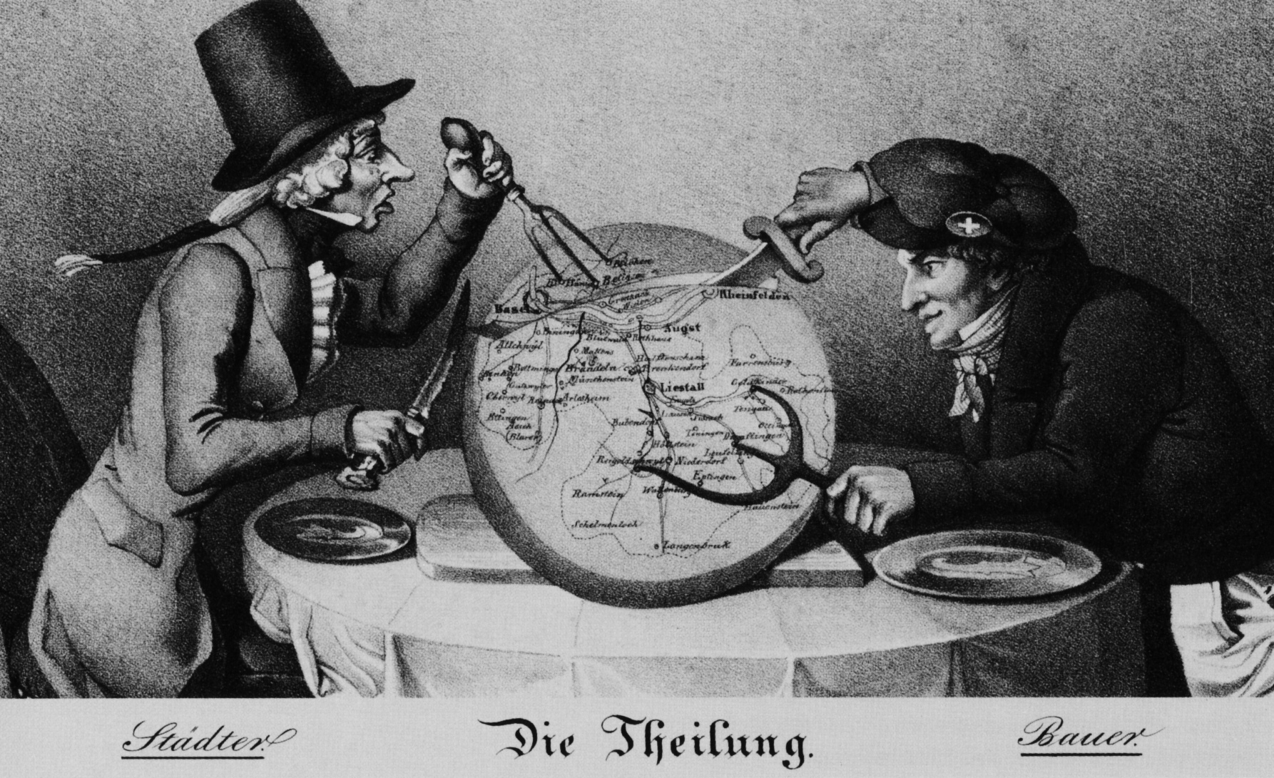 Caricature of the 1833 partition of the Swiss canton of Basel. The aristocratic-conservative bourgeois (left) from Basel-City draws a smaller slice than the liberal peasant from Basel-Country. This caricature is modeled after a well-known 1805 cartoon by James Gillray, "The Plum Pudding in Danger."